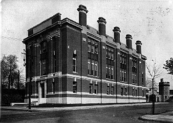 A side view of The Morton Memorial Building, Chemistry Laboratory on the campus of Stevens Institute of Technology in Hoboken, New Jersey